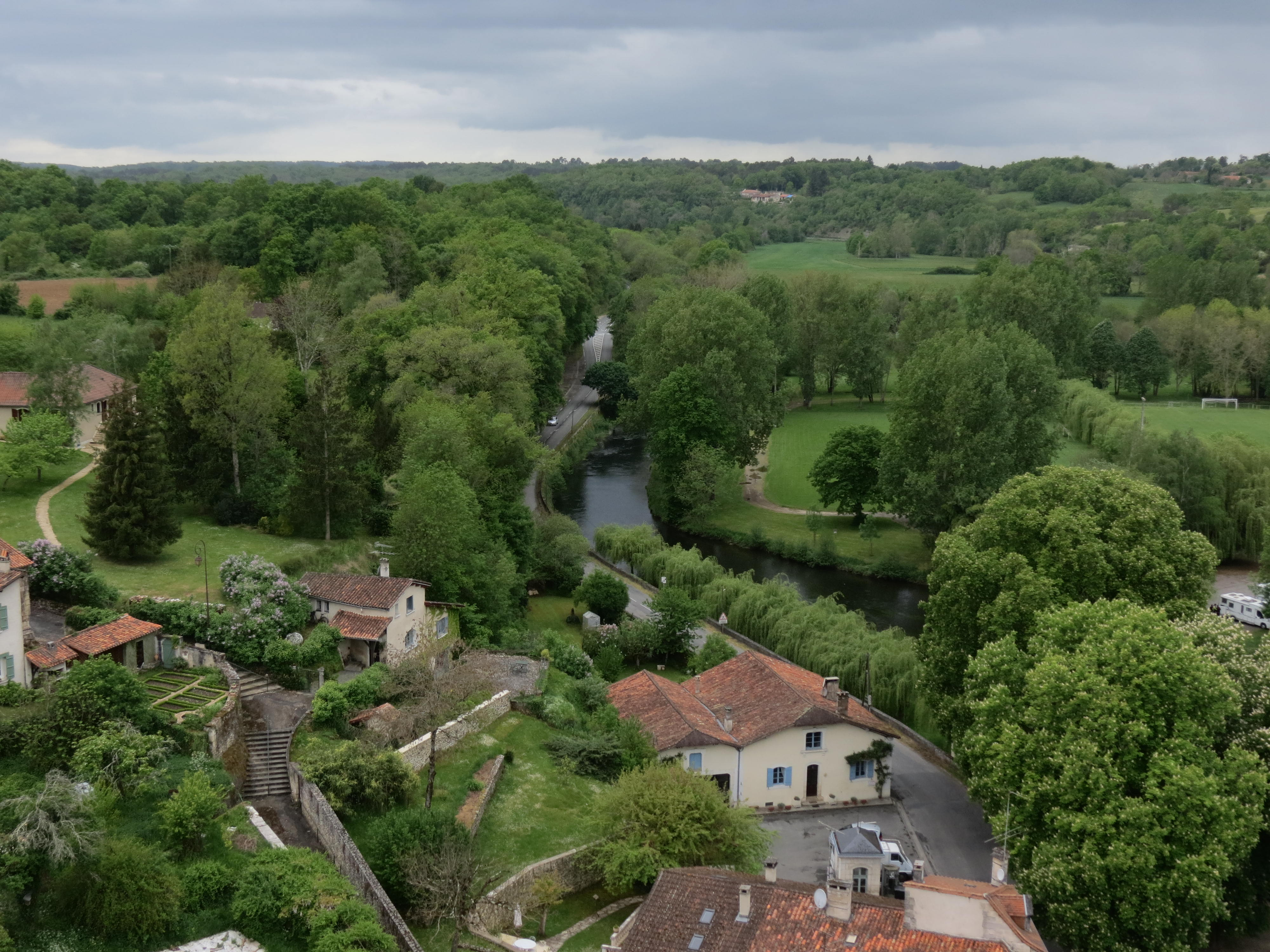 View of Bourdeilles and the Dronne from the Keep of the castle